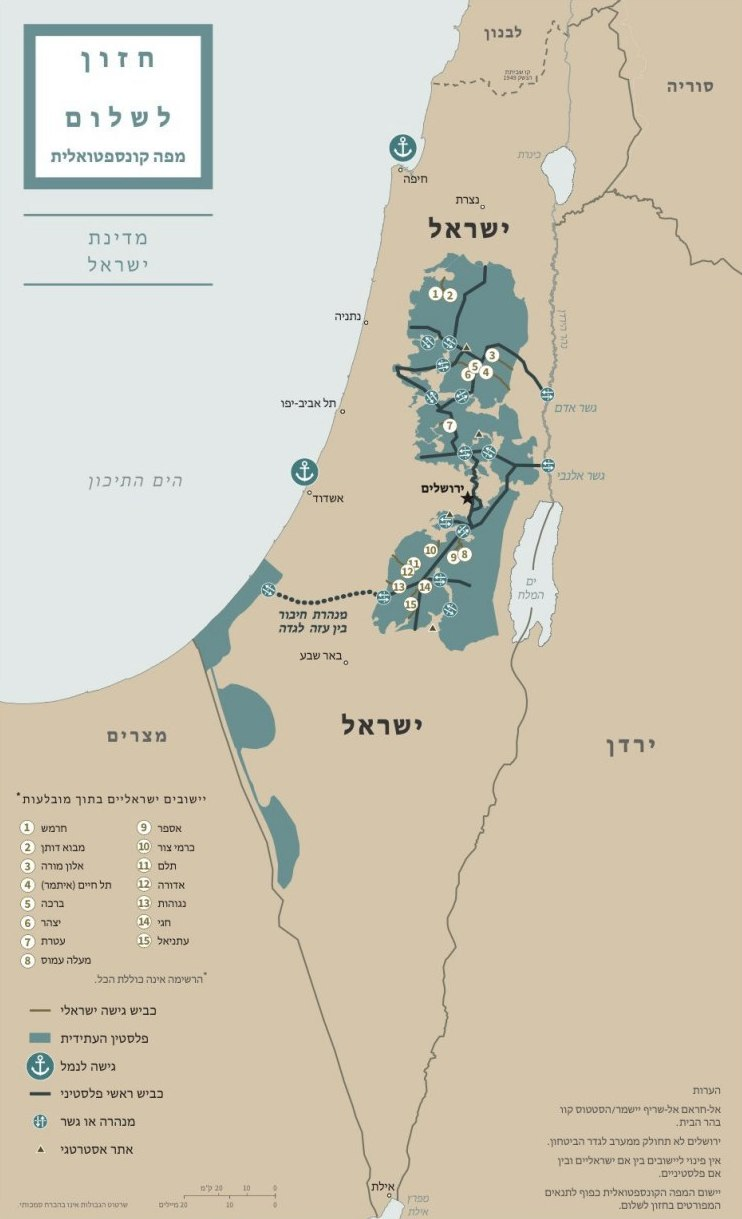 A map represents trump's deal